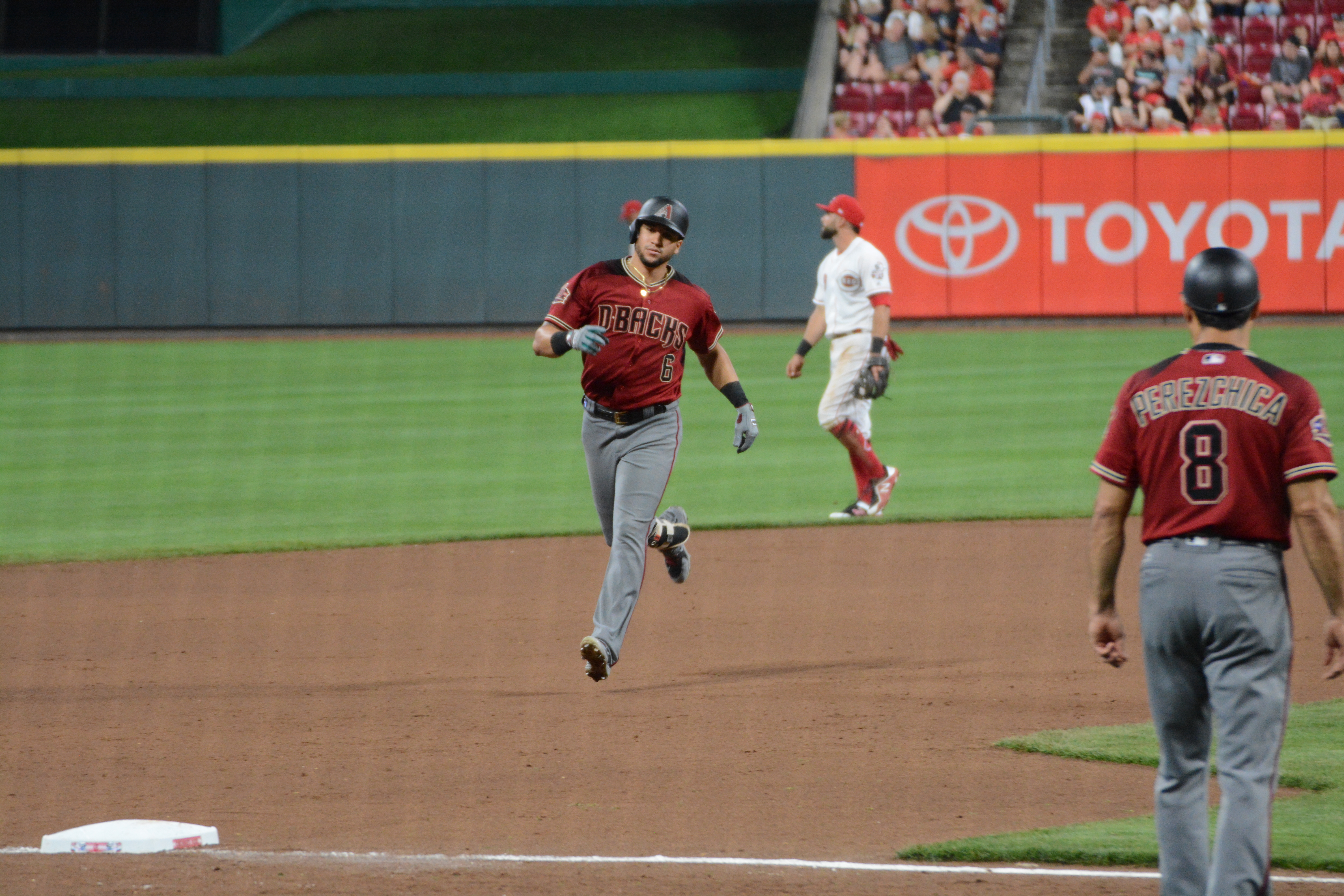 Taken at a baseball game between the Cincinnati Reds and the Arizona Diamondbacks on August 11, 2018 at Great American Ball Park in Cincinnati, Ohio.